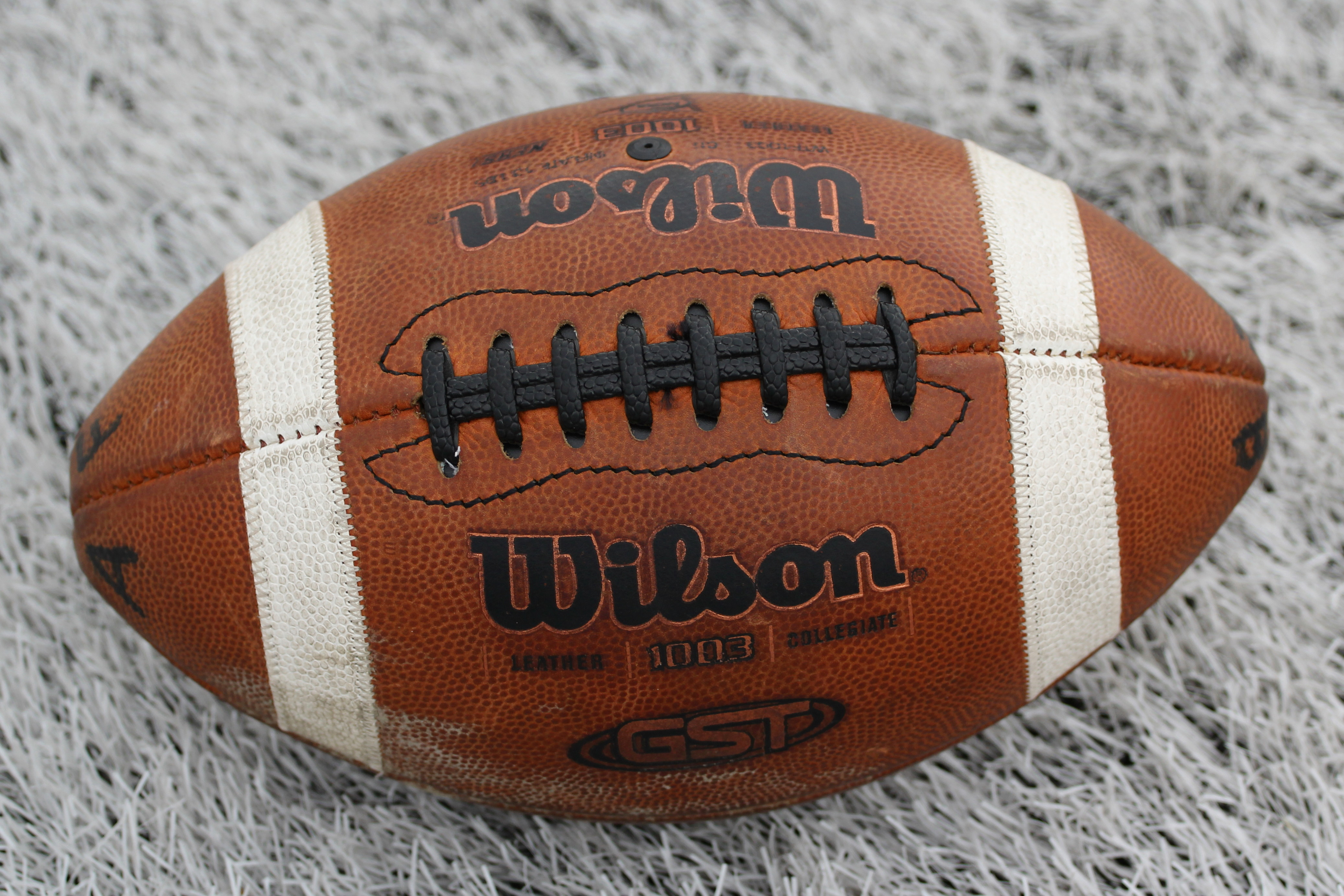 26 February 2012 , Tryout ÖJNT (Austrian Junior American football national team), American Football Zentrum Raveline - Wien